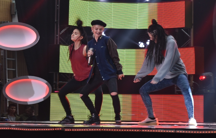 Polish singer Margaret during rehearsals for Polish National Final of ESC 2016